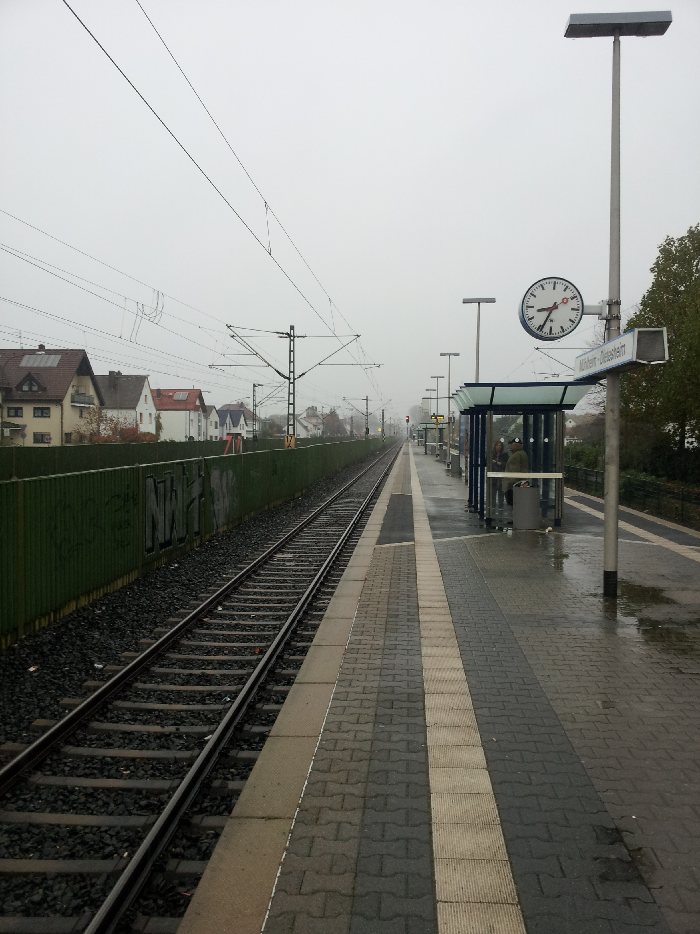 Mühlheim-Dietesheim railway station in October 2012.